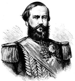 engraving of Dom Pedro II of Brazil from a 19th century book